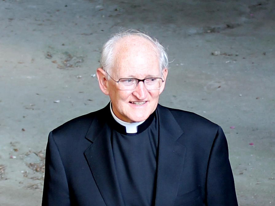 James Michael Cardinal Harvey, former Prefect of the Papal Household and current Cardinal-Archpriest of the Basilica of Saint Paul Outside the Walls.